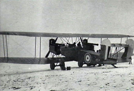 A captured German AEG G.IVK bomber in British colours. As part of the British Army of Occupation, No 4 Squadron, AFC was stationed at Bickendorf in Cologne from 7 December 1918 until March 1919.